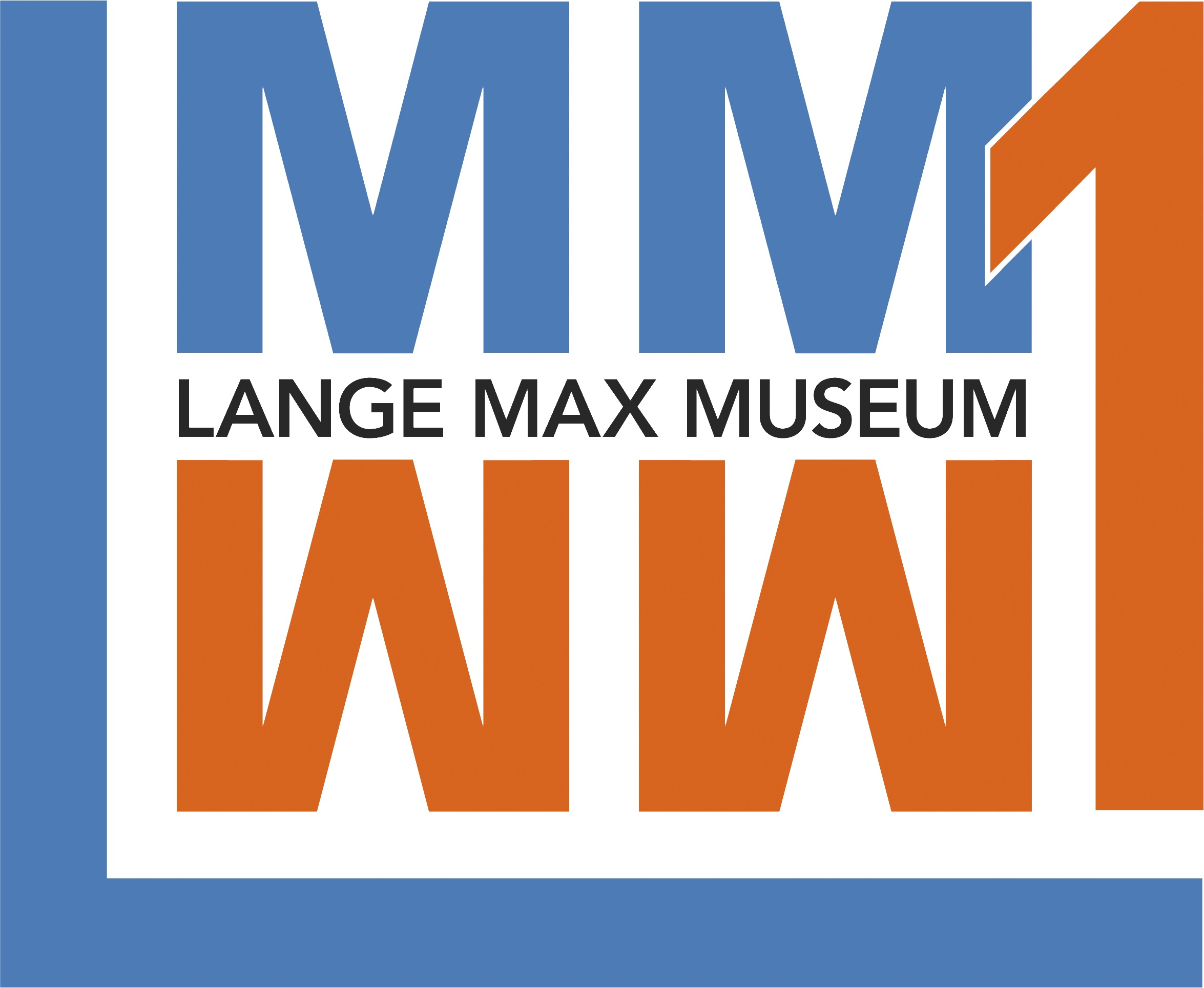 The logo of the Lange Max Museum, a war museum located in Koekelare